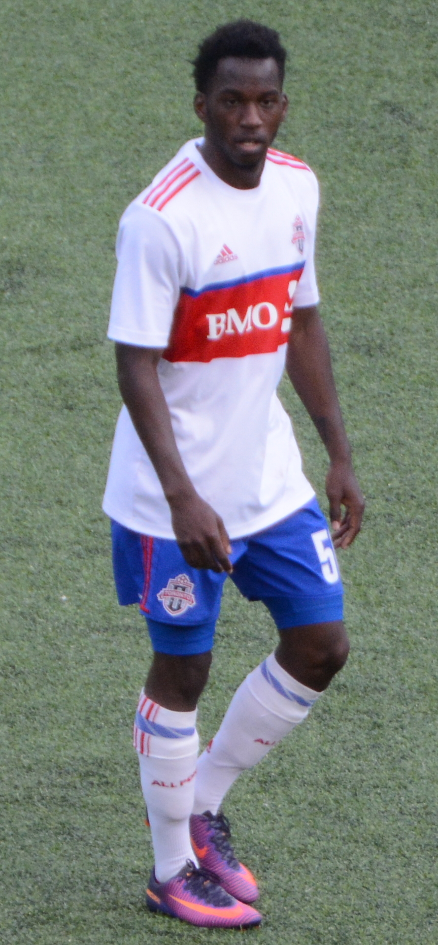 Malik Johnson Taken during a match between FC Cincinnati and Toronto FC II at Nippert Stadium in Cincinnati, USA on May 27, 2017.